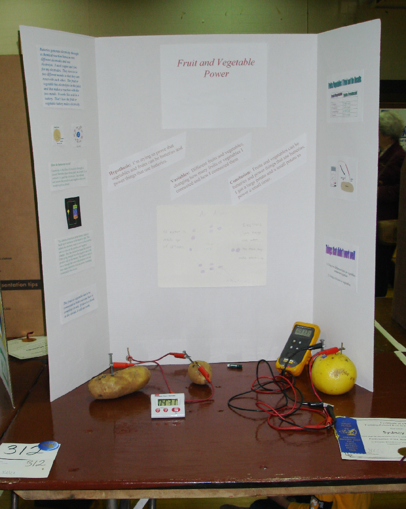 Science fair exhibit (fruit and vegetable power), probably the exhibit of a first or second grader, local science fair in New York State